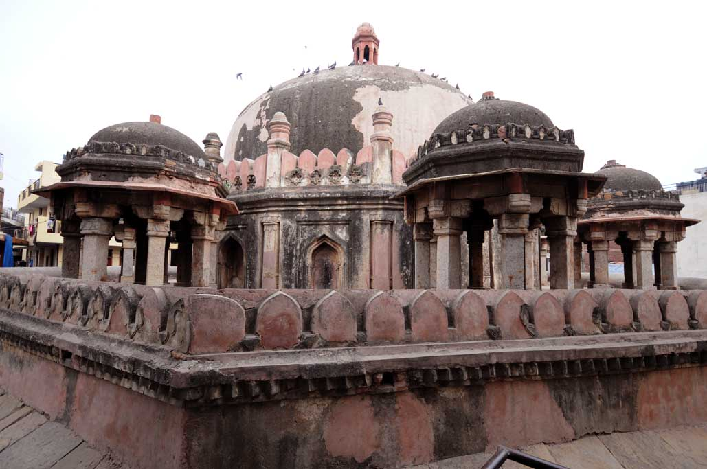 Another view of the tomb of Sultan Mubarak shah (A.D 1421 - 1434) of Delhi and whole of North India. This is one of the finest examples of the octagonal style tomb. Built in the middle of a new city founded by the Sultan, this now lies amidst urban decay, encroachement and squalor! If this is the fate of Emperror of India, descendant of Prophet Mohammad (ṣallā llahu ʿalayhi wa sallam), handsome, able and benevolent monarch, why are we proud of our own small achievements! What is might, beauty and riches before all powerful Time!